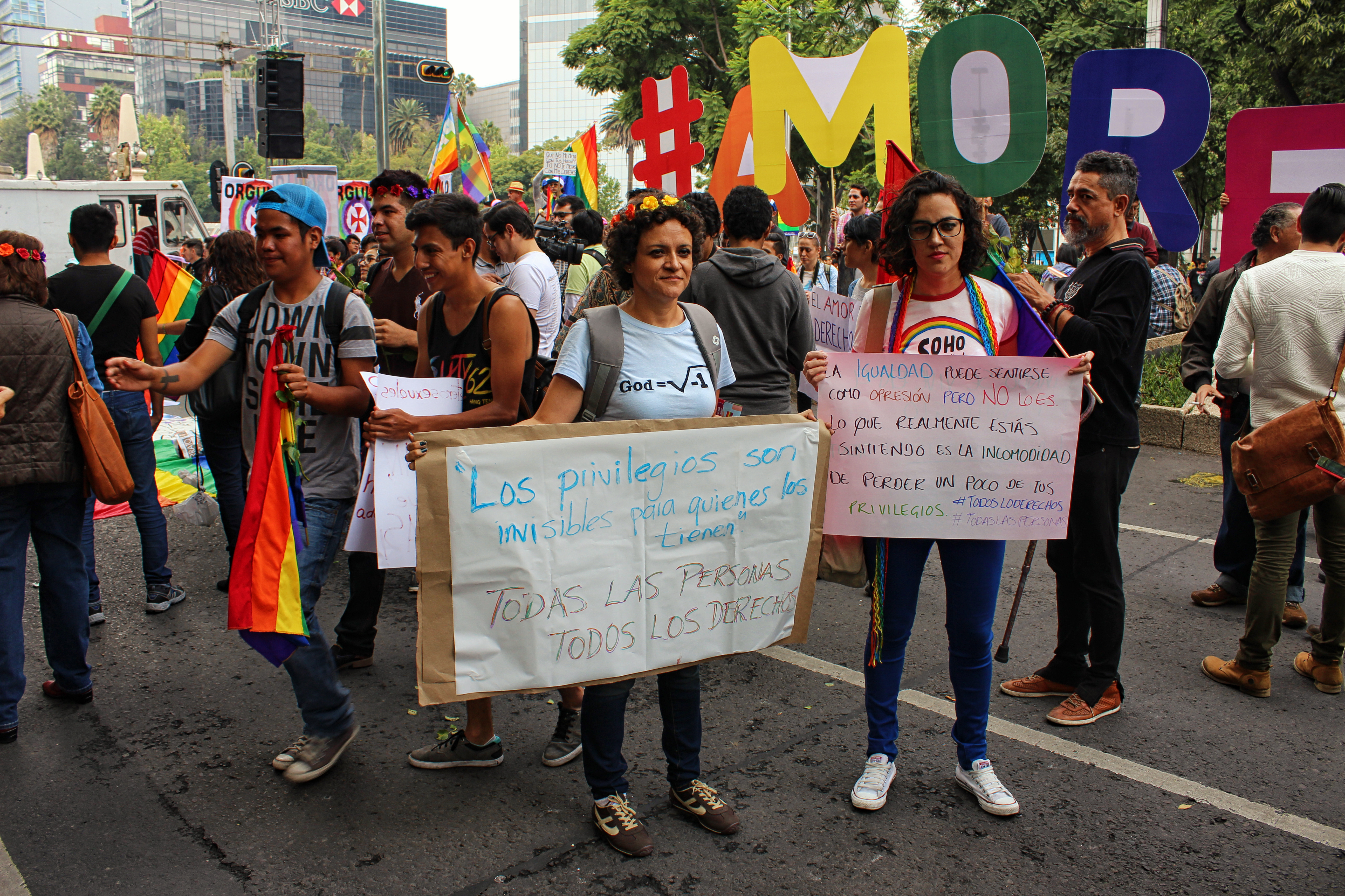 TodosSomosFamilia (We are all family) demonstration against Frente Nacional por la Familia's March for the Family, September 24, 2016, Mexico City